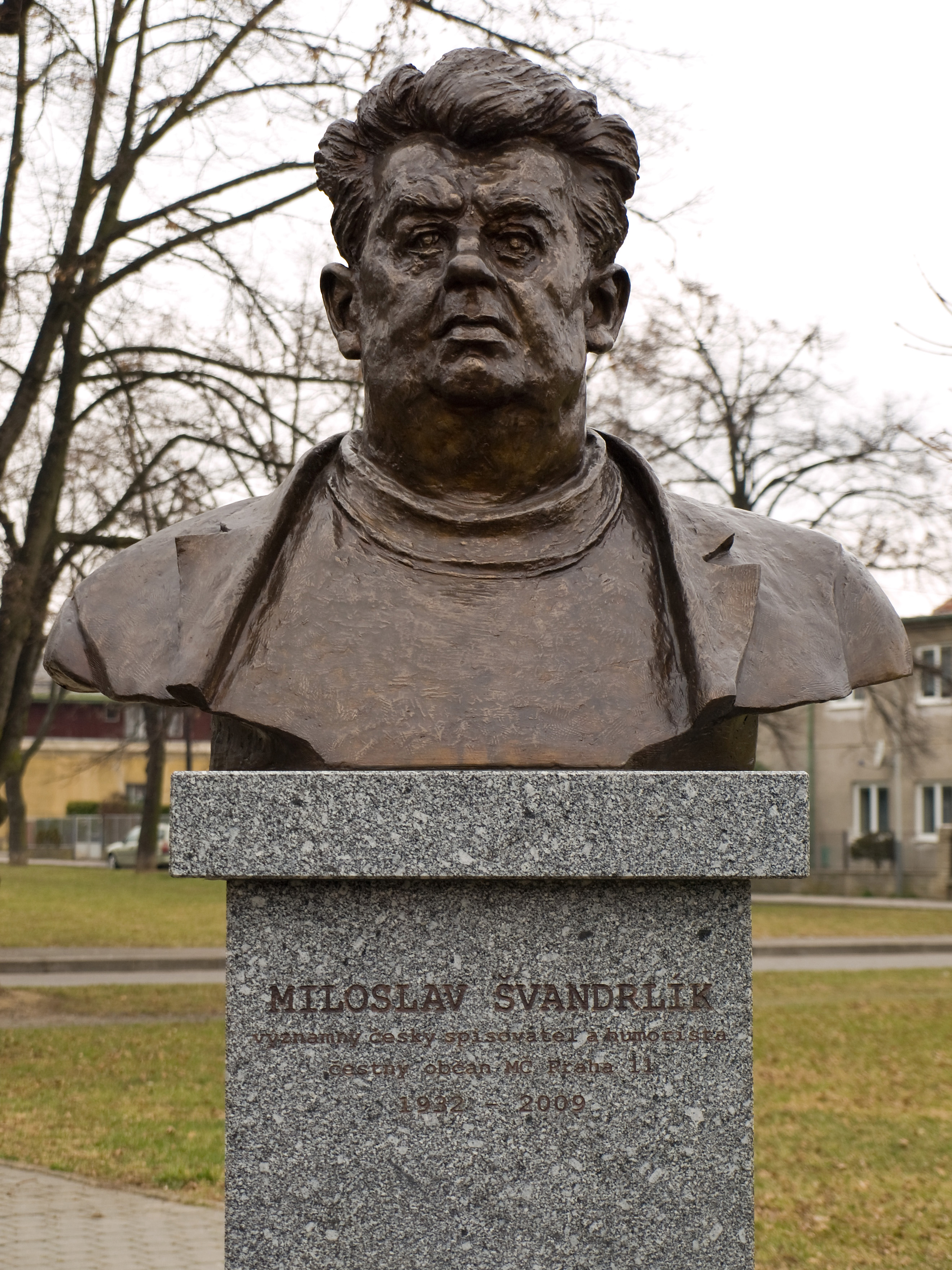 Bust of Czech writer Miloslav Švandrlík in Chodov (Prague), inaugurated 2010-OCT-14